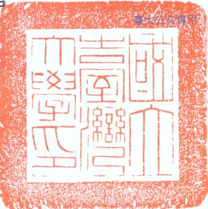 The official text seal of National Taiwan University.